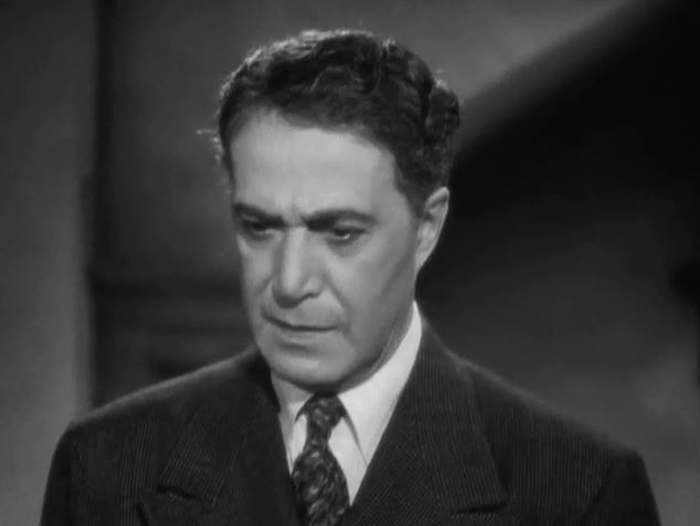 Low resolution screenshot of Arthur Edmund Carewe from the American film Charlie Chan's Secret (1936) in which he portrayed Professor Bowen, a psychic researcher. Shortly after completing this film, he suffered a stroke, which ended his acting career. He was later found dead in his car in the parking lot of a Santa Monica beach motel in 1937, an apparent suicide. The film is in the public domain due to the omission of a valid copyright notice on its original prints.